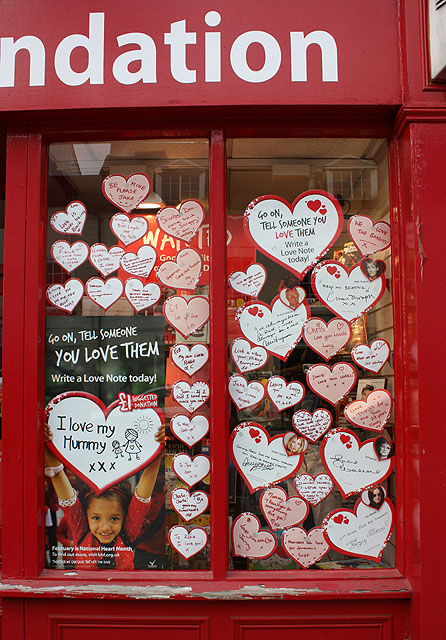 Happy Valentine's Day Charity shop window display in Monnow Street - someone has thought up a new way to make money for the British Heart Foundation charity from bits of paper. Pay a pound and your 'Love note' will be displayed for everyone to read. February is National Heart Month.